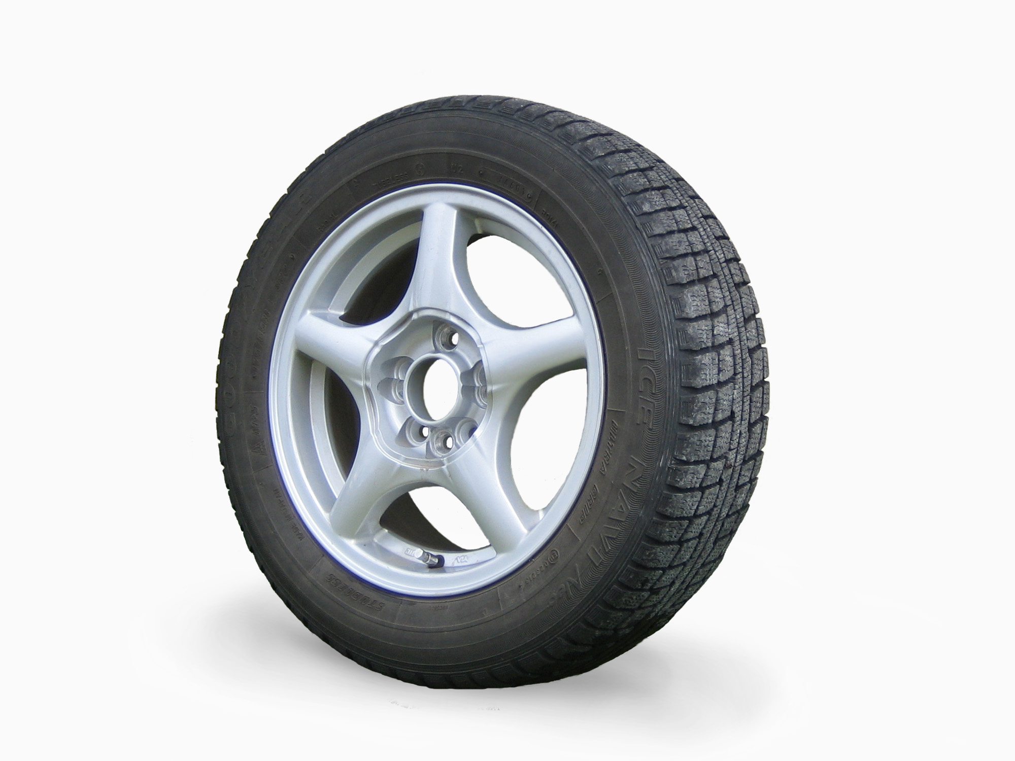 Studless tire (スタッドレス・タイヤ)